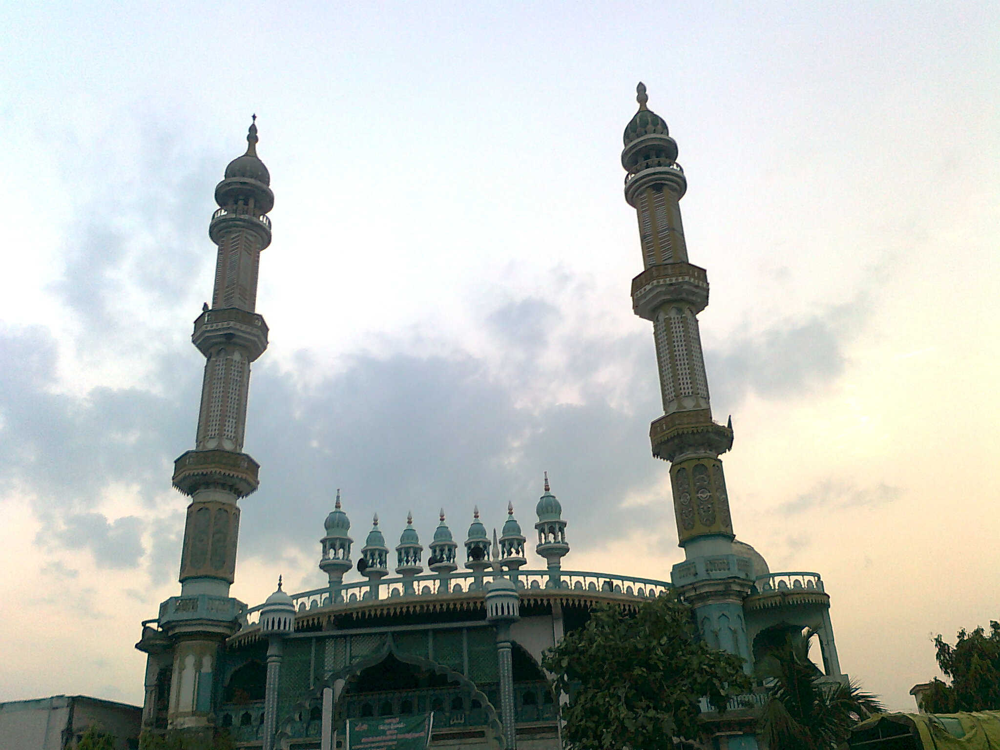 Shahi Mosque, Located at kadapa road, mydukur